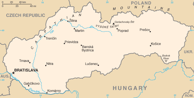 Map of Slovakia.